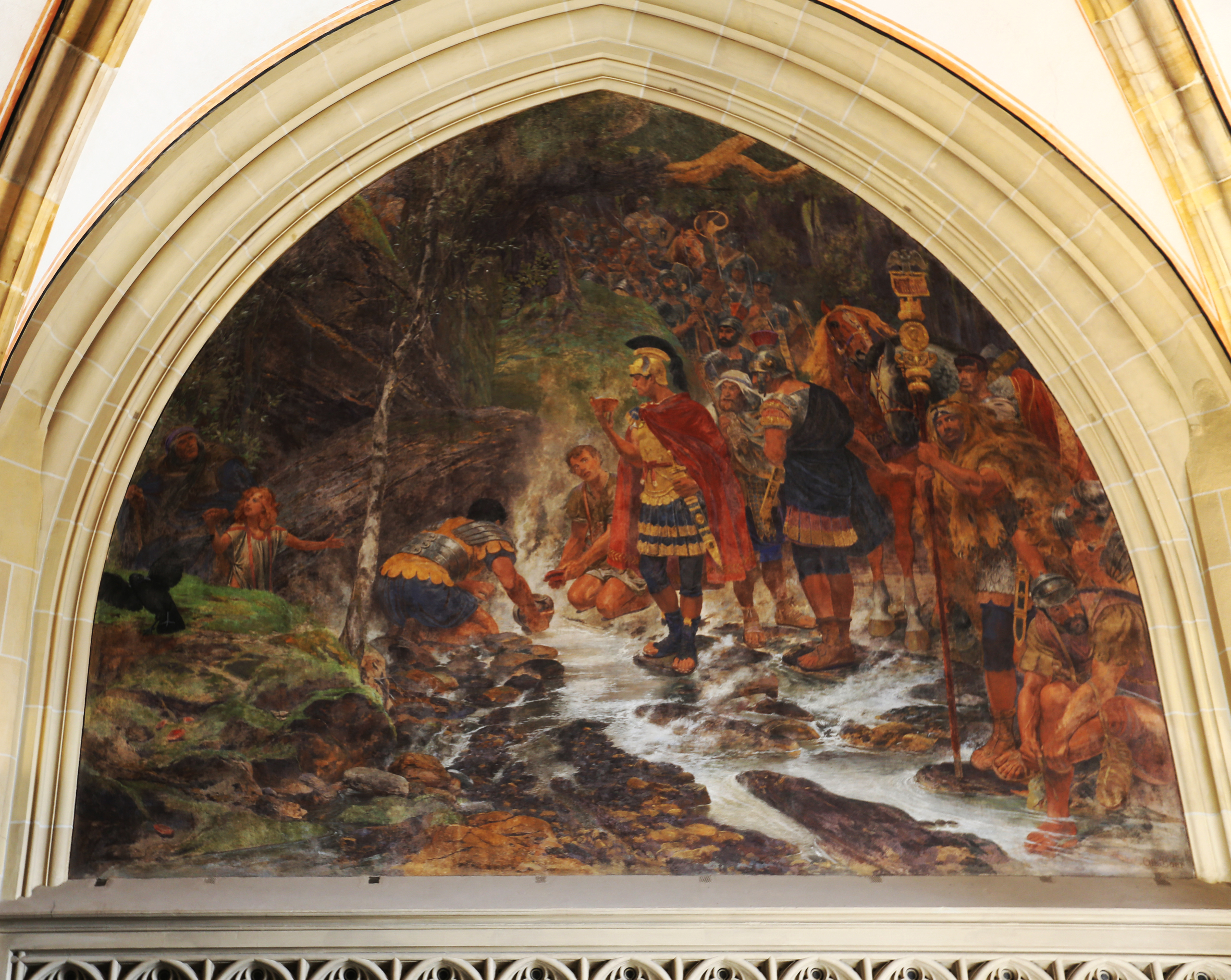 Fresko at the Gothic Aachen Rathaus, Interior of Coronation Hall